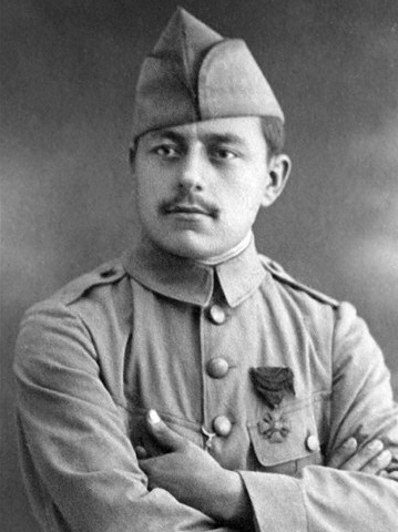 Louis de Cazenave (1897-2008), next-to-last French veteran of World War I, fought in the Battle of Chemin des Dames (Second Battle of the Aisne), April-May 1917